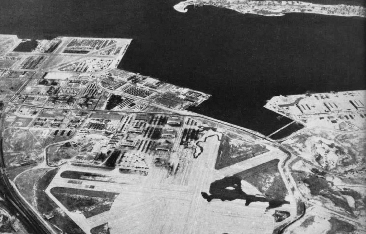 The Naval Air Station Norfolk, Virginia, USA, about 1946/47.